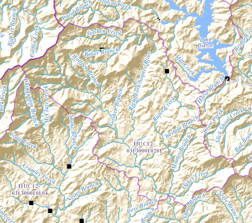 HUC 031300010201 - Headwaters Soque River. Soque River on the west, with Raper Creek on the right.